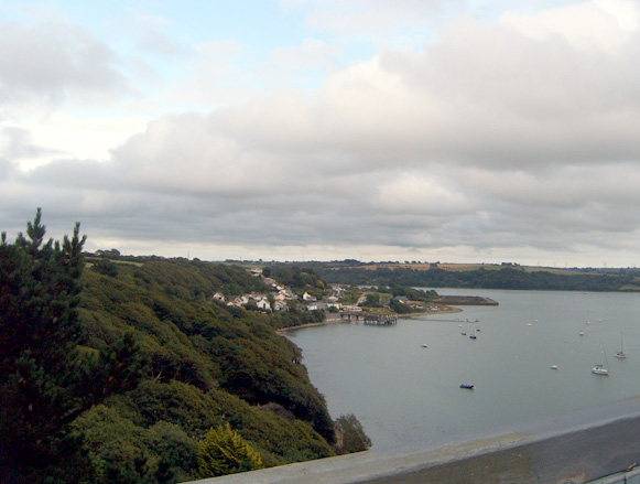 View of Doc Penfro (Pembroke Dock)